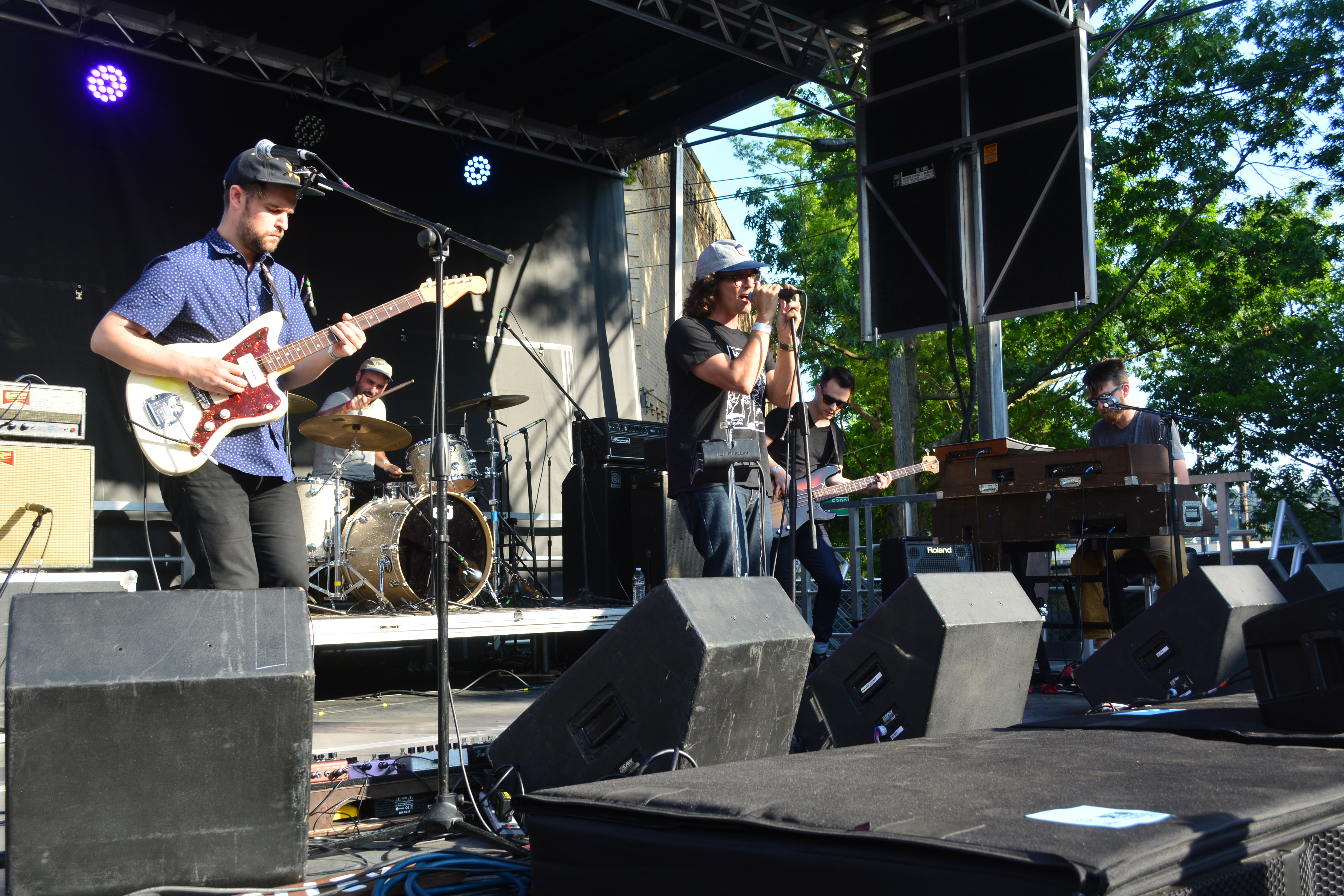 Seattle band Pickwick performing at the 2019 Ballard Seafood Fest.